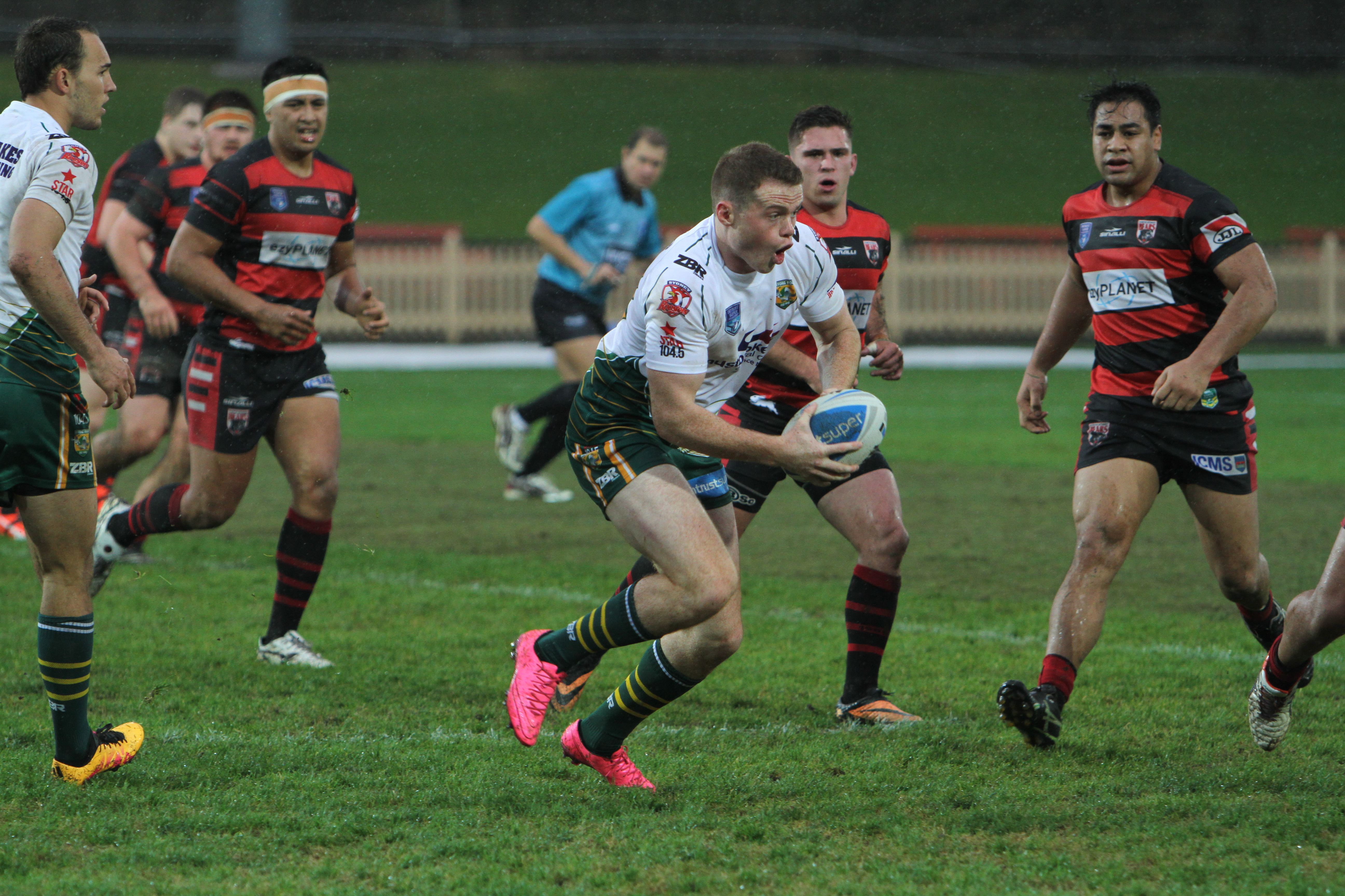 Joe Burgess